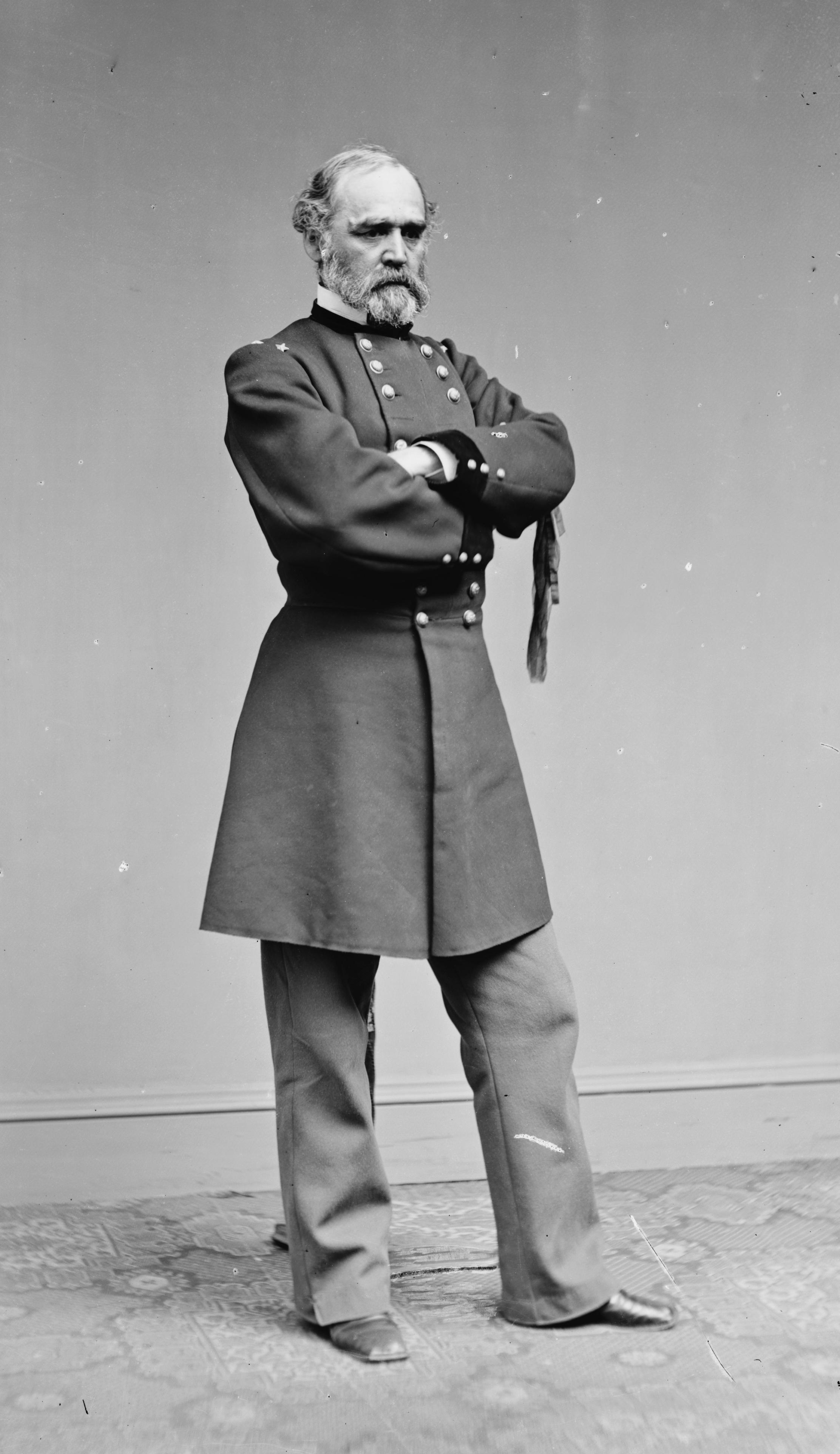 Montgomery C. Meigs (1816-1892). Library of Congress description: "Gen. Montgomery Meigs, U.S.A."